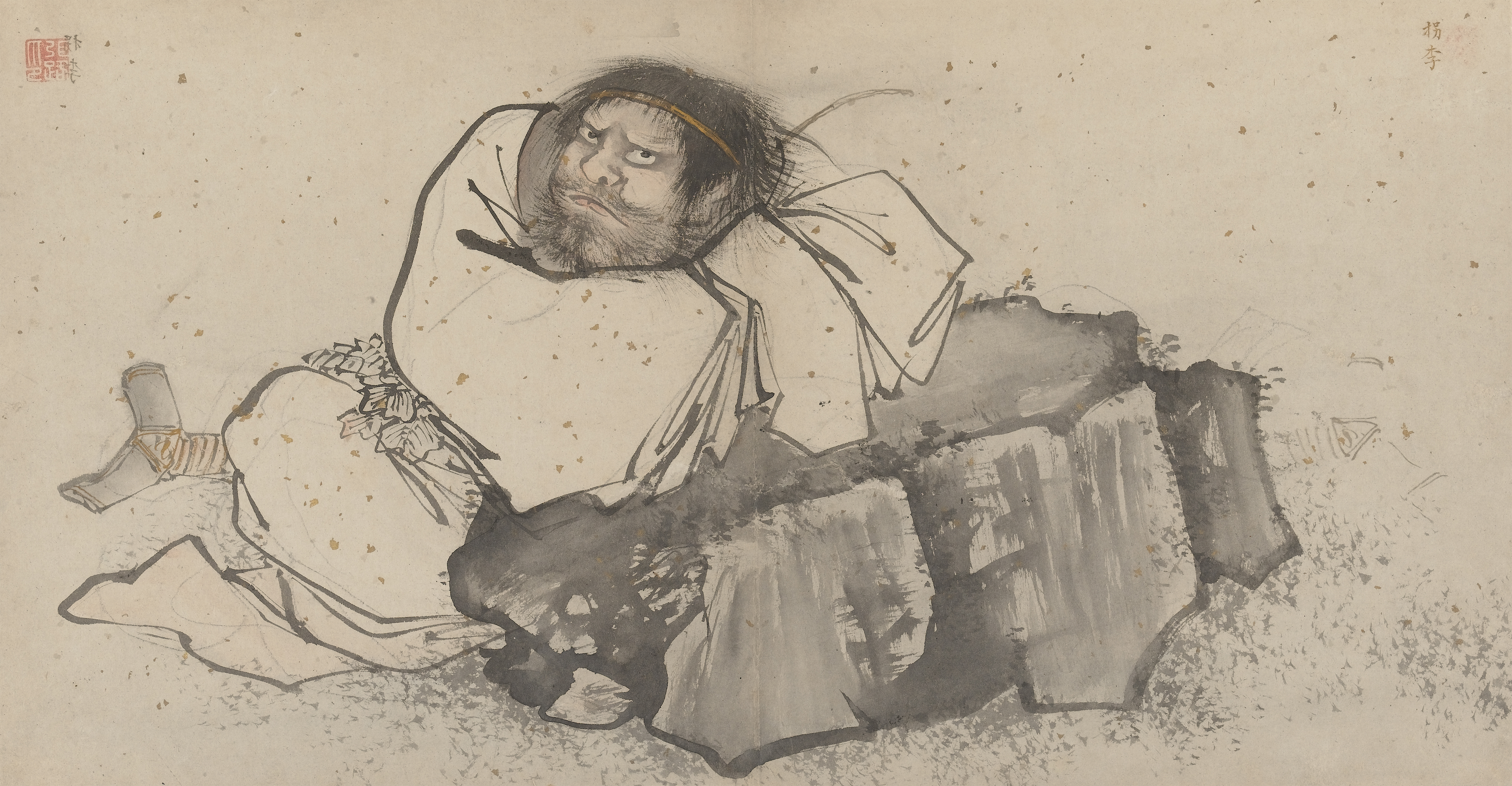 Depiction of the Daoist immortal Li Tieguai